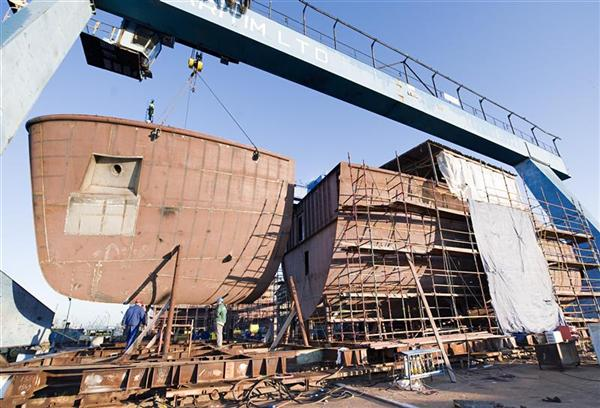 Works on RAINBOW WARRIOR III project at Maritim Shipyard in Gdansk, Poland. The hull is composed of seven sections, which were prepared individually in the shipbuilding hall. Adjustment of the bow section at the hull.